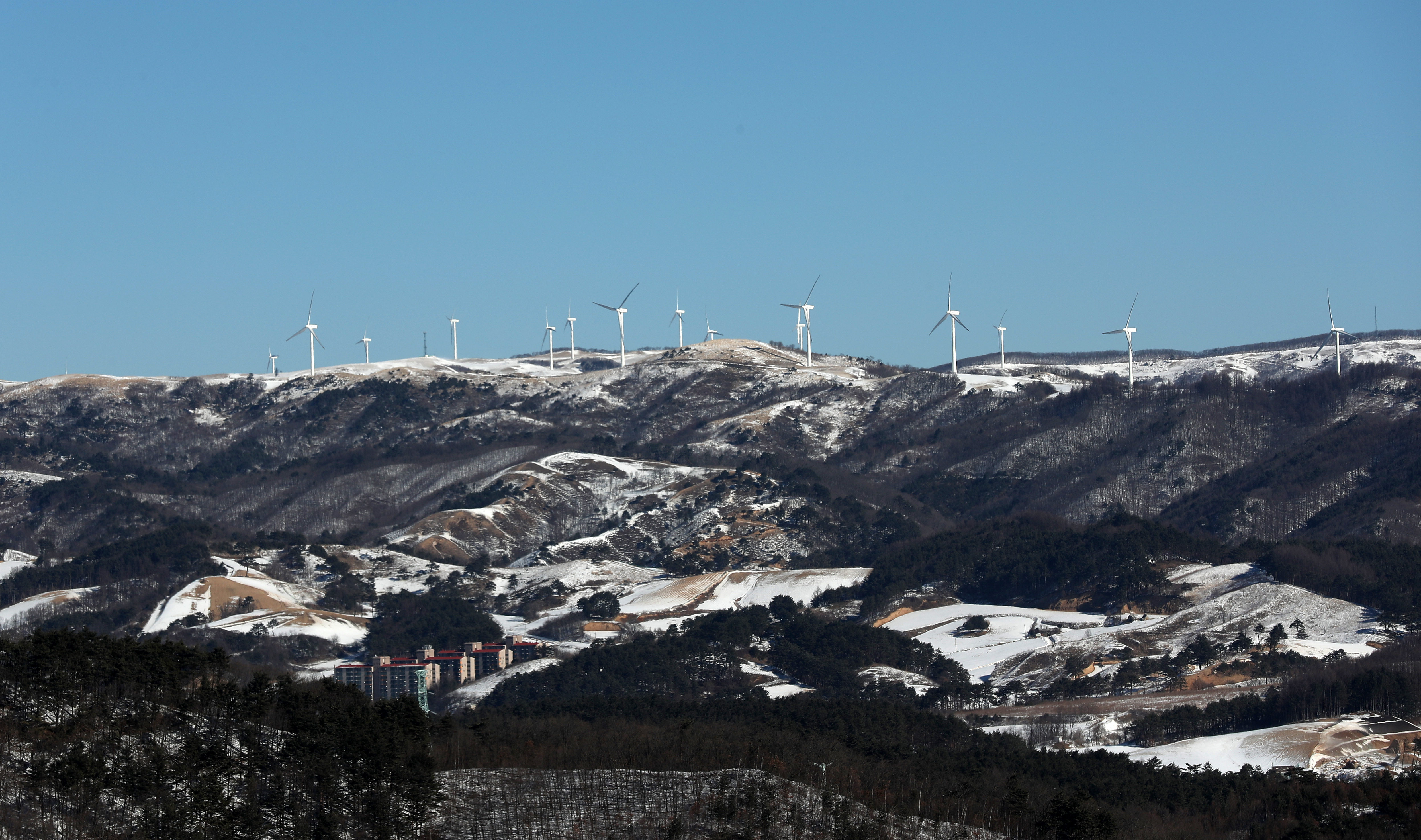 PyeongChang Alpensia February 2, 2017 Alpensia, Pyeongchang-gun, Gangwon-do Ministry of Culture, Sports and Tourism Korean Culture and Information Service ( Official Photographer : Jeon Han This official Republic of Korea photograph is being made available only for publication by news organizations and/or for personal printing by the subject(s) of the photograph. The photograph may not be manipulated in any way. Also, it may not be used in any type of commercial, advertisement, product or promotion that in any way suggests approval or endorsement from the government of the Republic of Korea. 알펜시아 2017-02-02 평창군 문화체육관광부 해외문화홍보원 코리아넷 전한